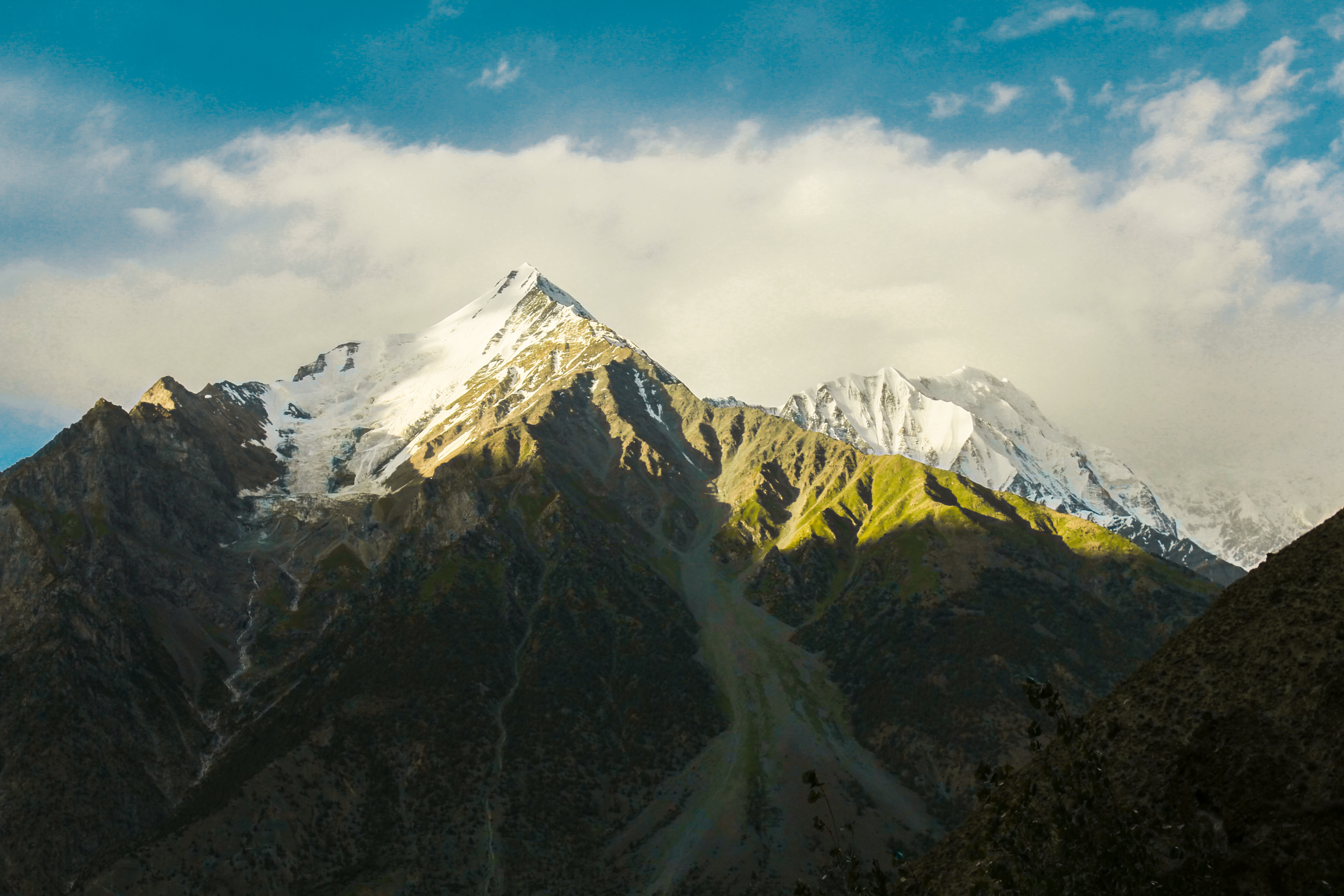 Diran Peak is a mountain in the Karakoram range in Bagrote valley Gilgit-Baltistan, Pakistan. This 7,266-metre (23,839 ft) pyramid shaped mountain lies to the east of Rakaposhi (7,788m). Diran was first climbed in 1968 by three Austrians: Rainer Goeschl, Rudolph Pischinger and Hanns Schell. Earlier attempts by a German expedition in 1959 and an Australian expedition in 1964 were unsuccessful.